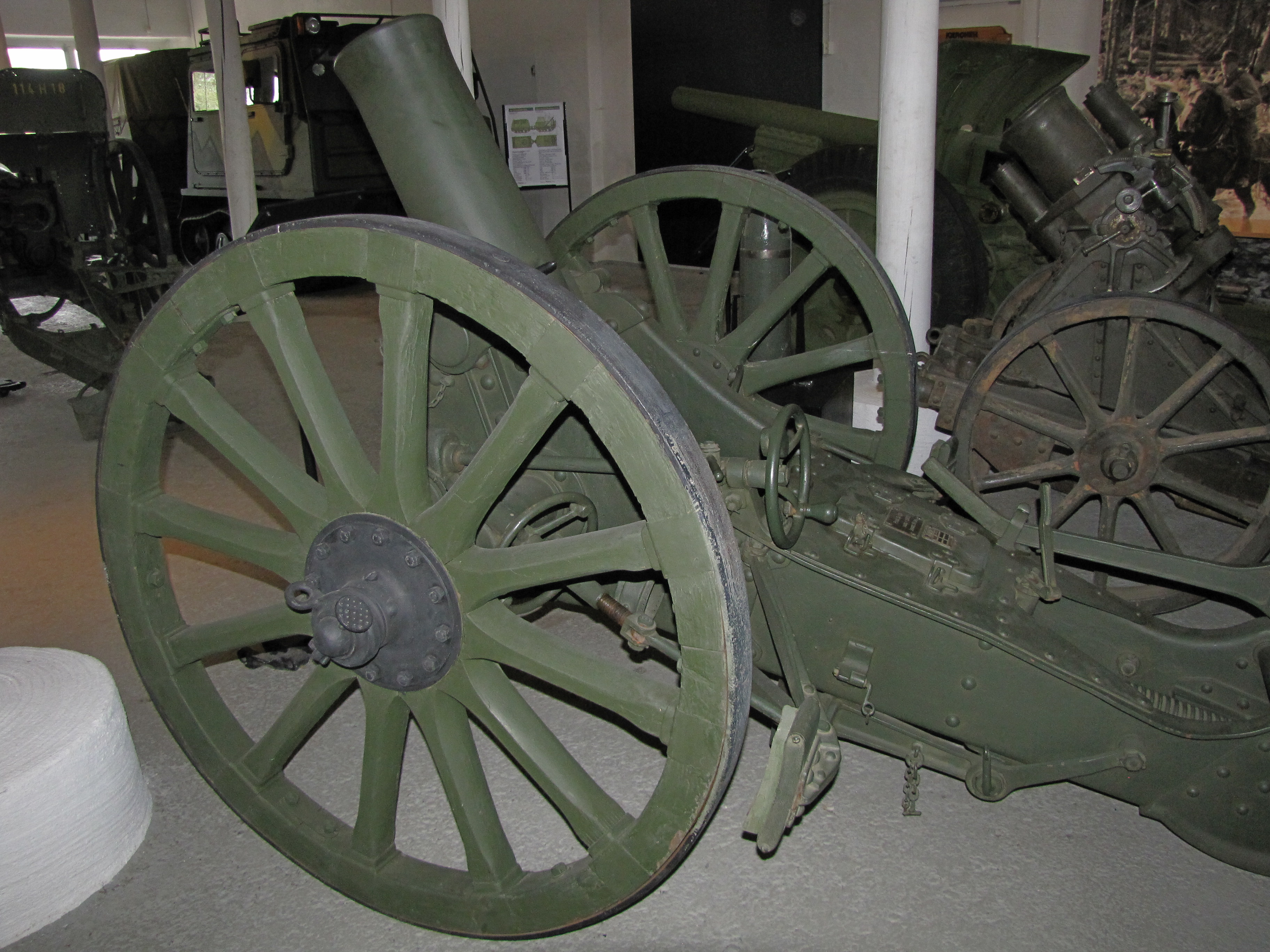 German 120 mm mortar howitzer model 1901 in Hämeenlinna artillery museum. Sold to Russian Empire, captured by Finns during Finnish Civil War. Serial number 24, manufactured by Fried. Krupp, Essen in 1901.